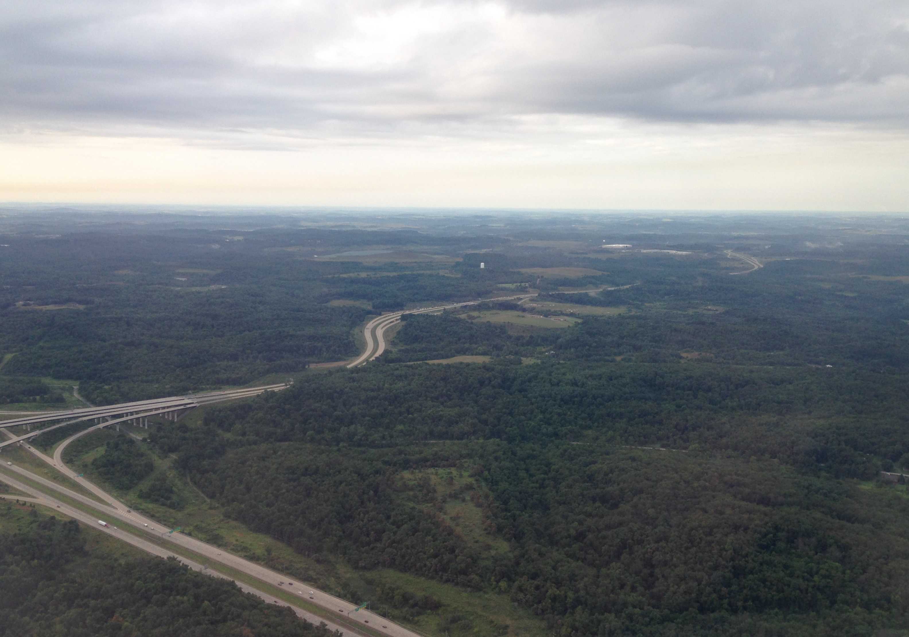 An aerial view of Pennsylvania Route 576 with Interstate 376 visible from a west flying airplane on takeoff from Pittsburgh International Airport.